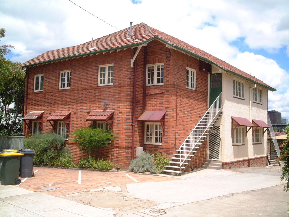 Ainslie - Julius Street Flats New Farm (2004)